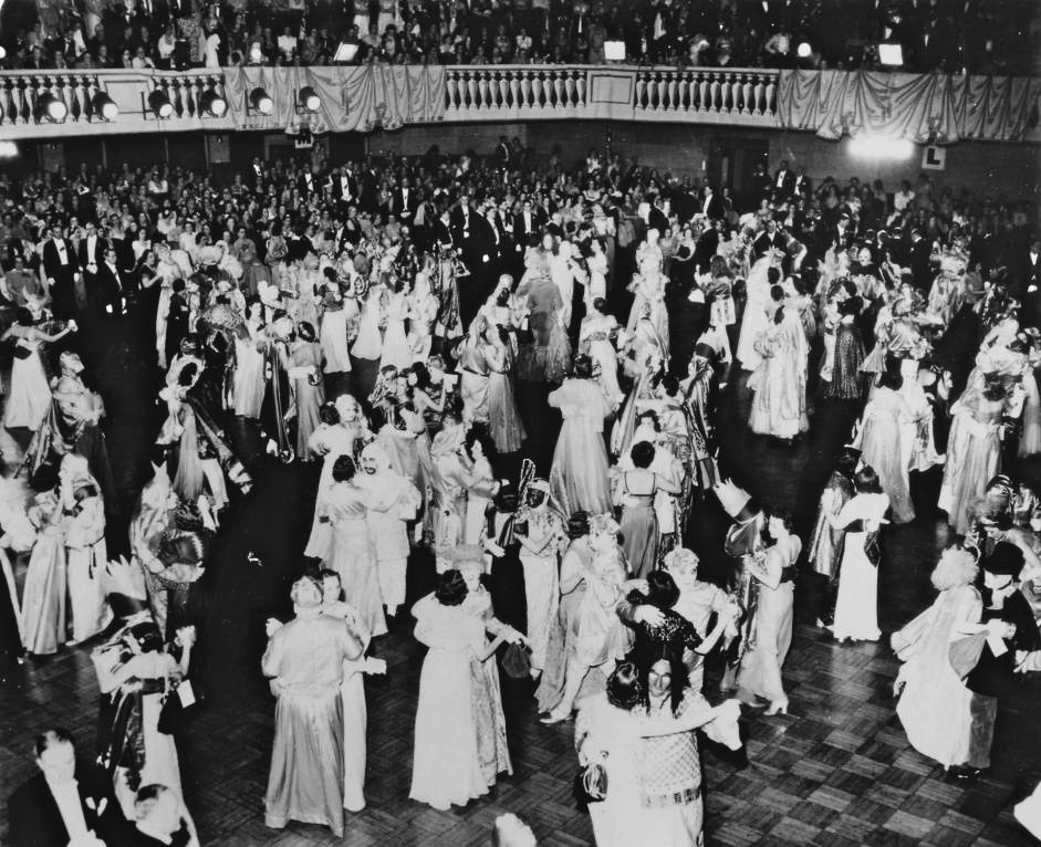 Dancing in a ballroom during Mardi Gras in New Orleans, 1930s. Original caption: " "Mardi Gras Ball in the New Orleans Auditorium. While the Mardi Gras period is composed essentially of parades and masking, the Carnival period is centered around the elaborate private balls given by thirty or more private social organizations. Over each of these balls reigns a king, whose name is not made public, except in the case of Rex; and a queen, a debutante of the season selected for the honor by the krewe. The King and Queen are surrounded by their court of maids and dukes. The Ball is opened by a tableaux, lasting about an hour and the cast, the scenery and the stage effects are all in keeping with the theme selected. The theme may be anything from the toy factory of Santa Claus to an important historical event, but it is always colorful and as nearly perfect as months of planning and thousands of dollars could accomplish. This picture was taken after the tableaux when all members of the krewe participate in one of the dances. Admittance to these balls is by invitation only."